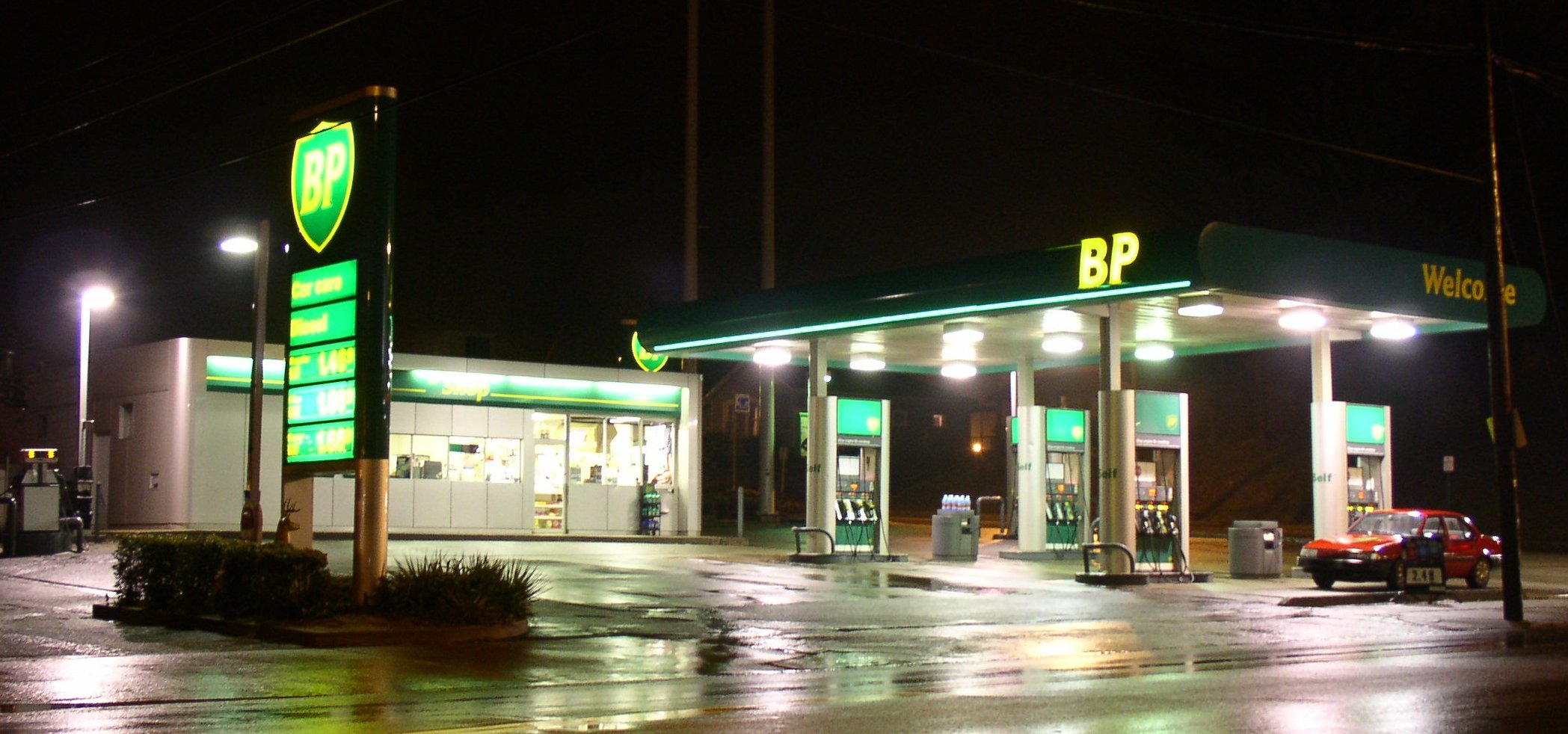 BP service station in Zanesville, Ohio.